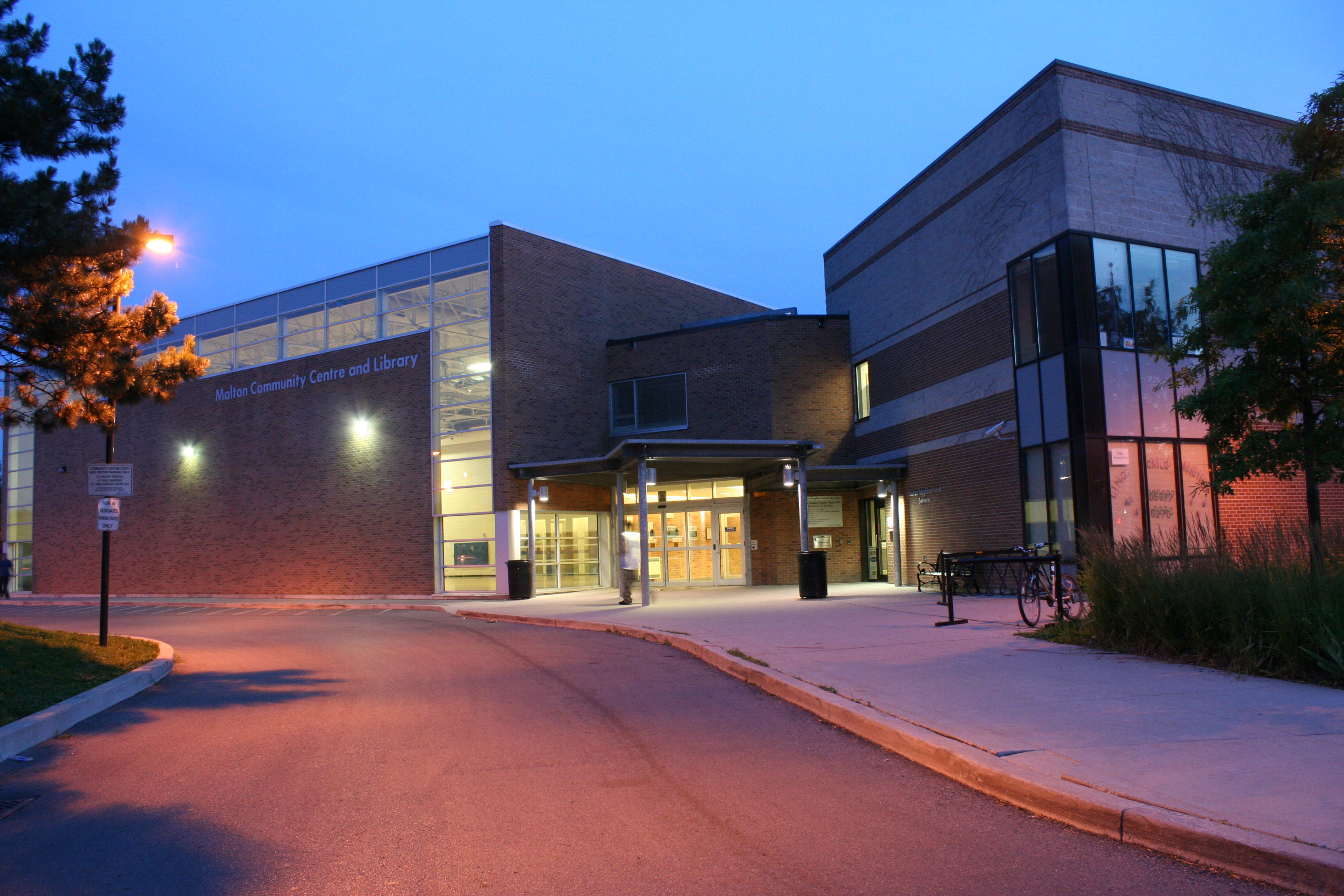 The Malton Community Centre. This picture appeared on the front cover of the Malton Mirror's first issue.